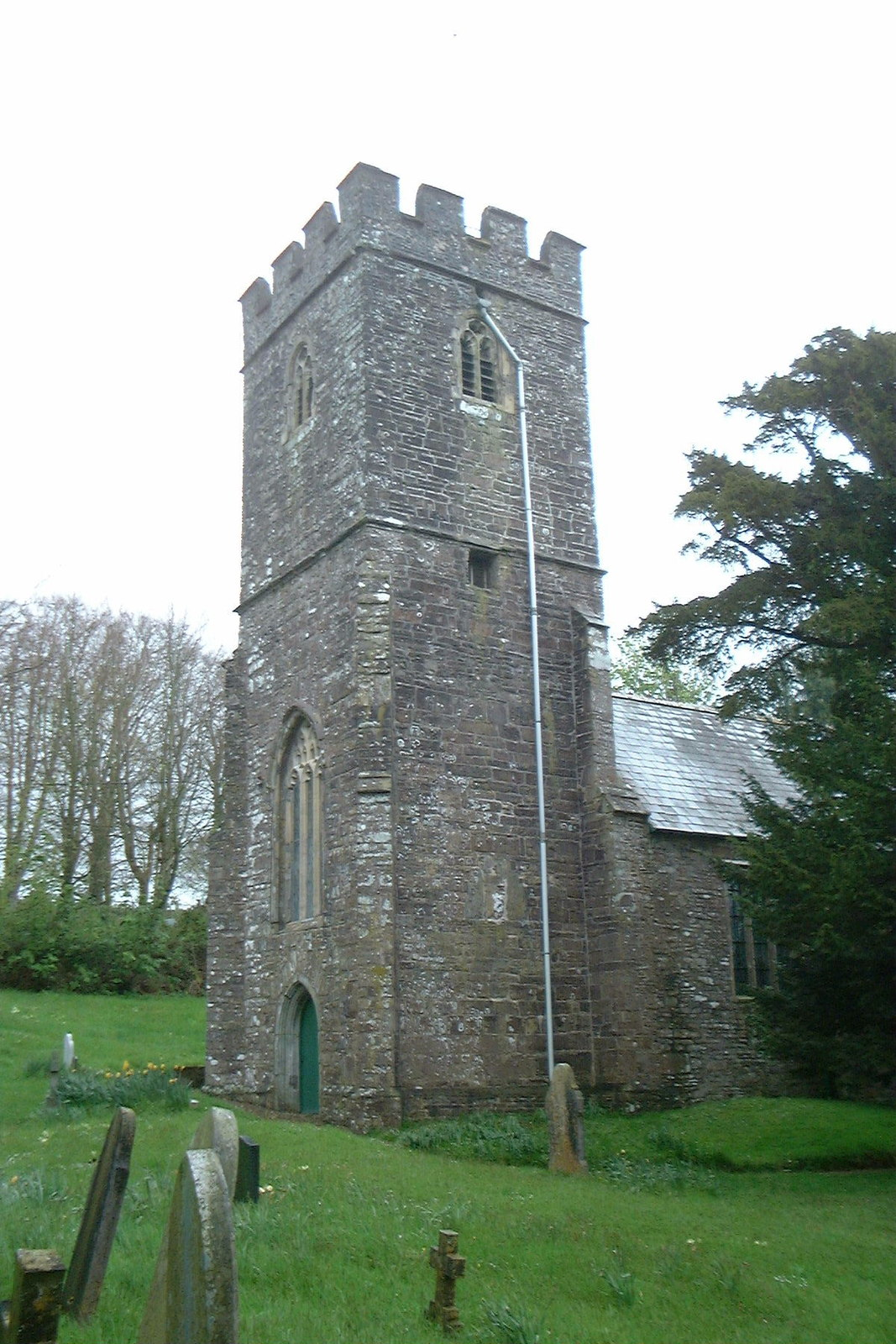 West tower of St Michael's parish church, East Anstey, Devon, seen from the southwest